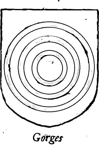 also used coat of arms of family Gorges (heraldic whirlpool)